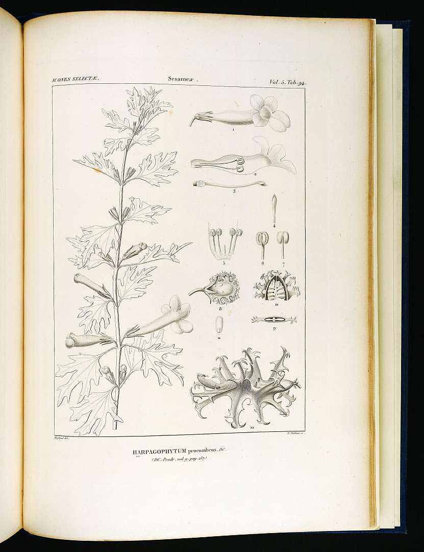 Harpagophytum procumbens (Burch.) DC. ex Meissner "Icones selectae plantarum", vol. 5: t. 94 (1846)